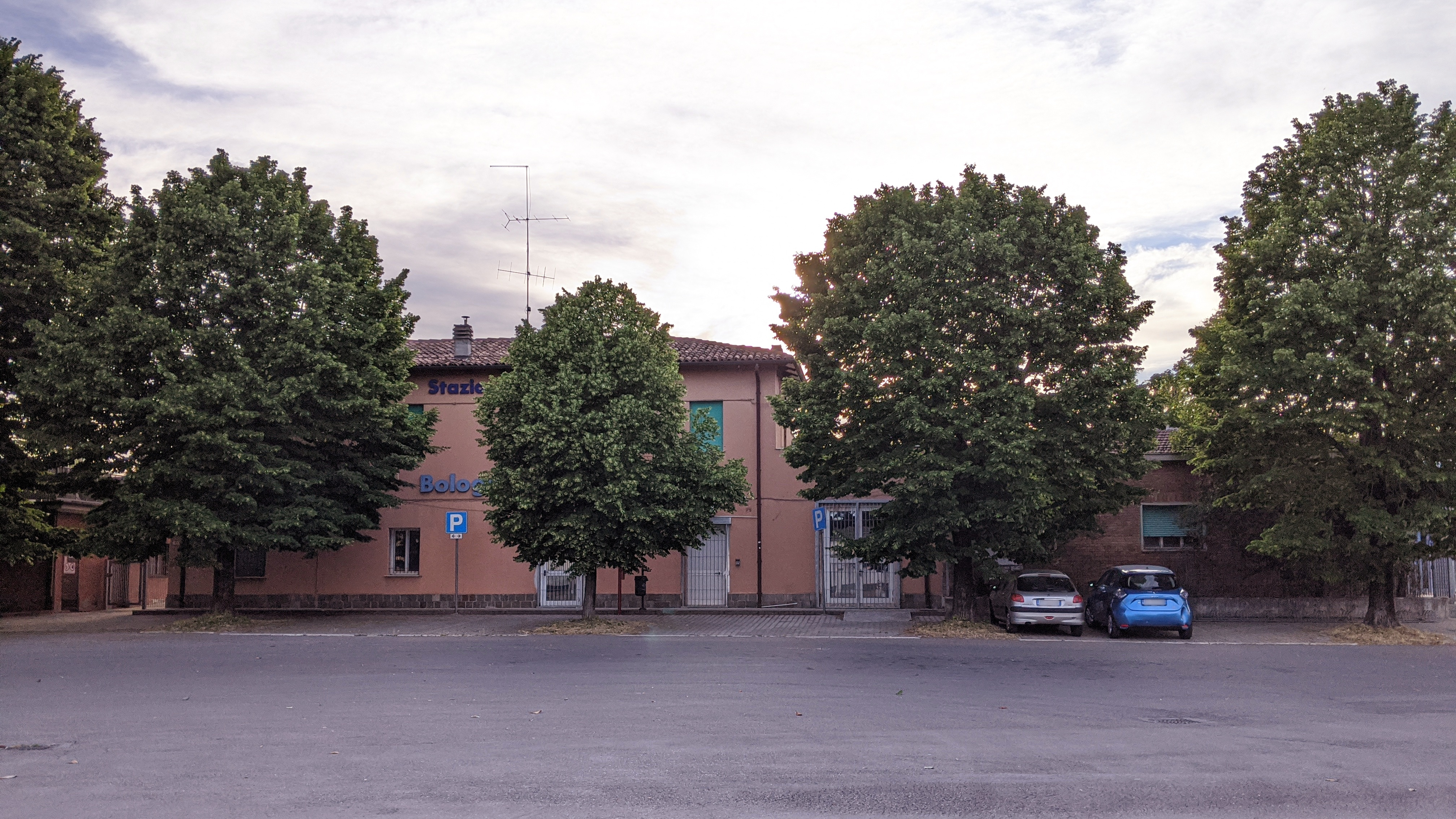 Bologna Corticella train station, external view